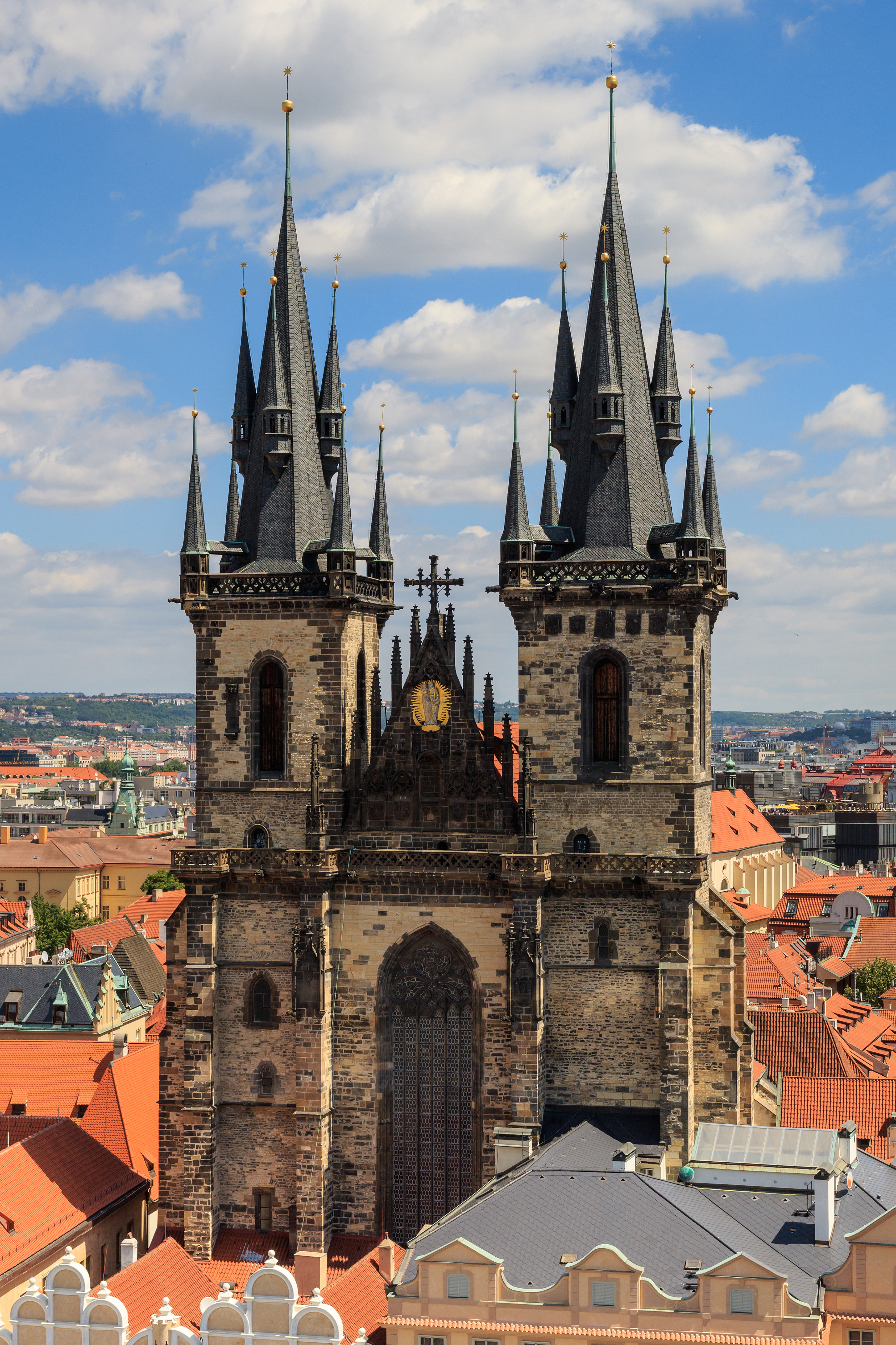 View from the tower of Old Town Hall in Prague (Czech Republic)